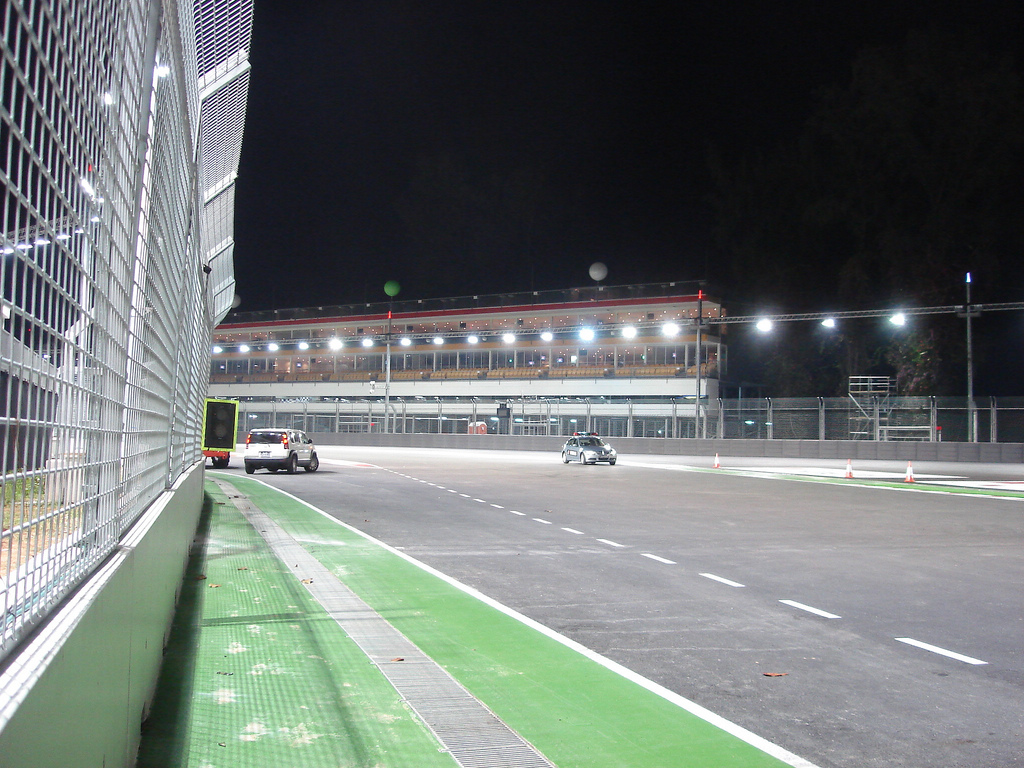 Marina Bay street circuit last corner